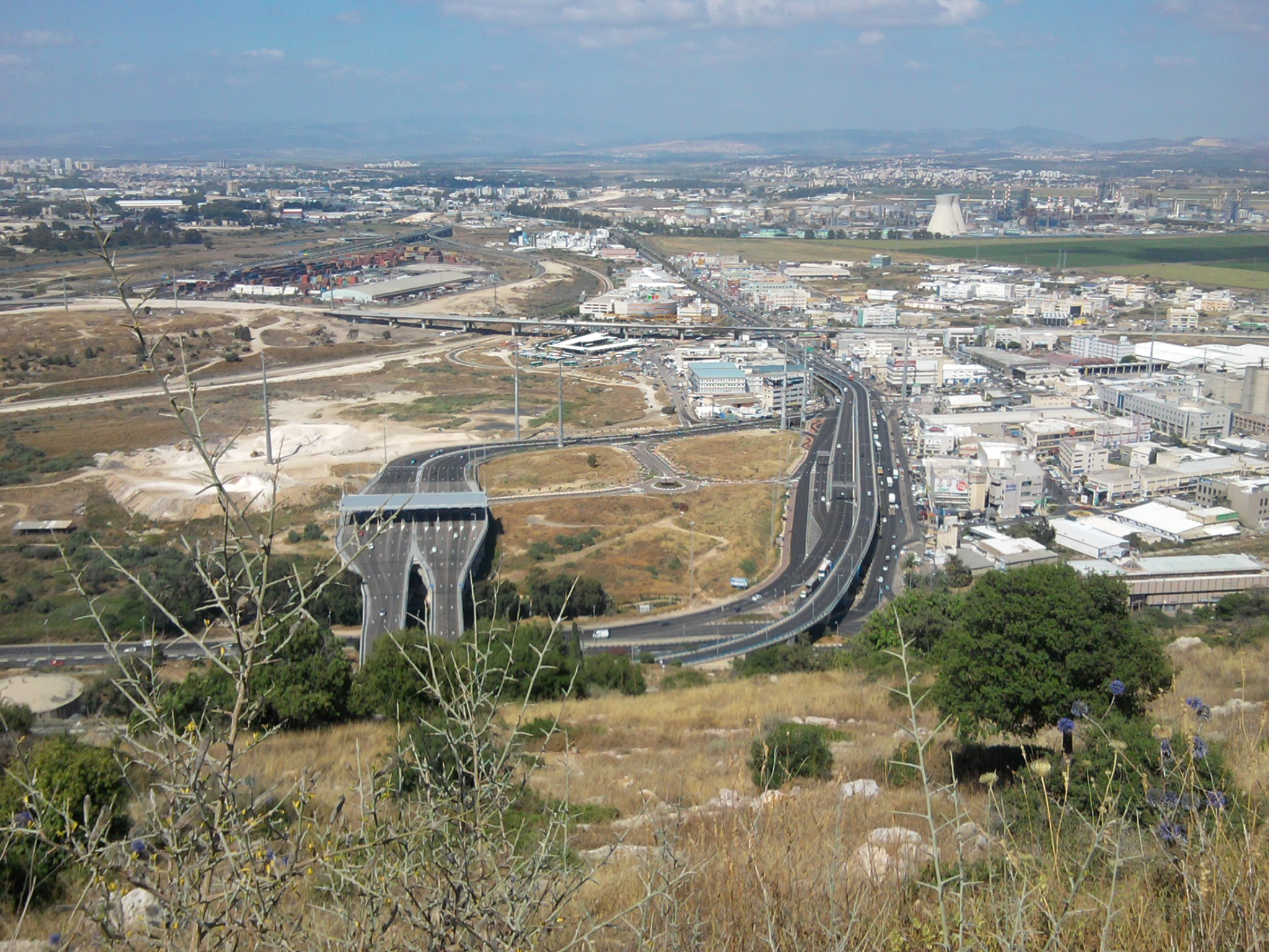 Checkpost, neighbourhood of east HFA, seen from south, with the Carmel Tunnels' toll plaza in the front of the image. At the background is the newly-erected bridge extending Road 75 westward to its joint with Highway 22.